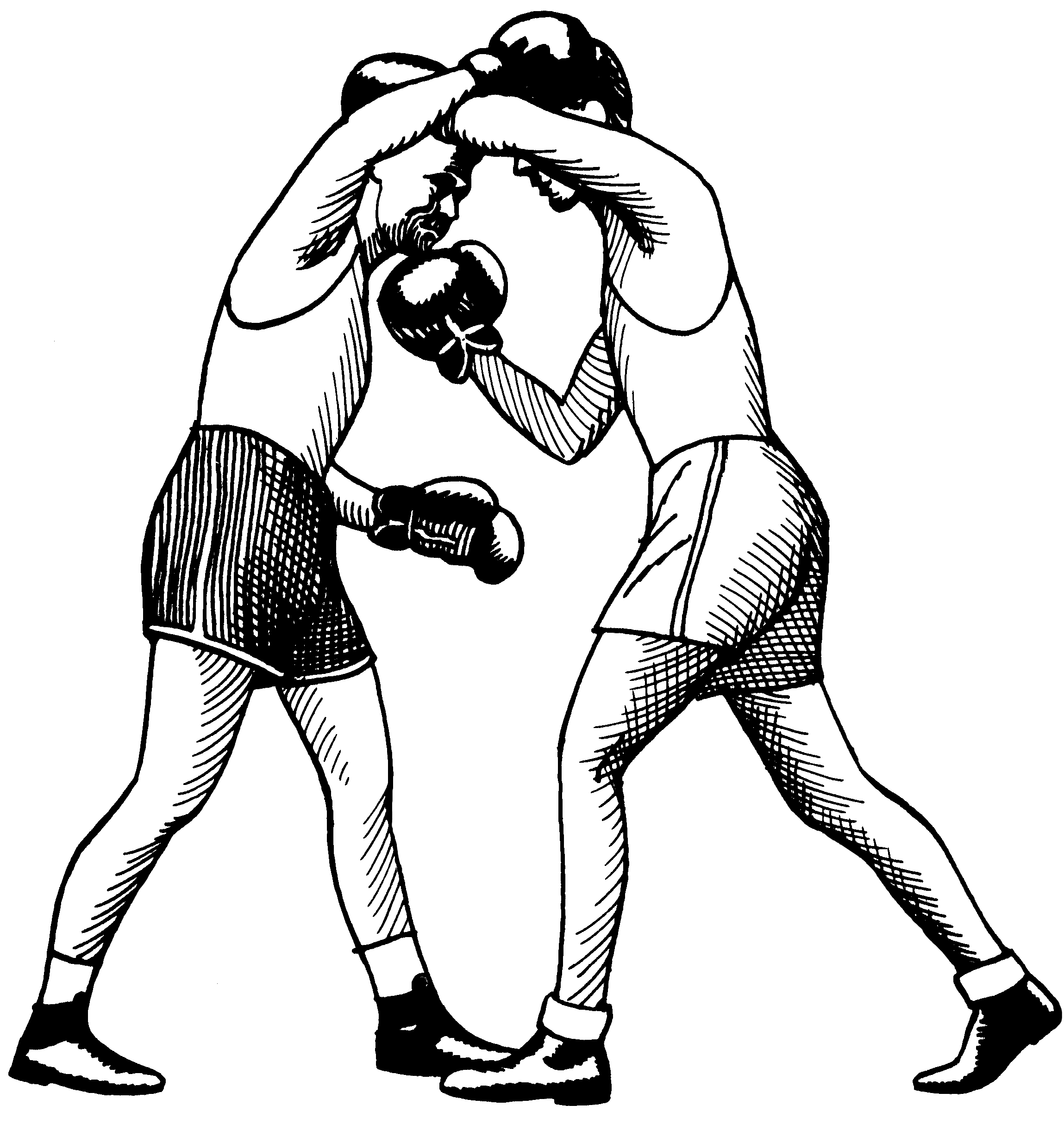 Line art drawing of an uppercut